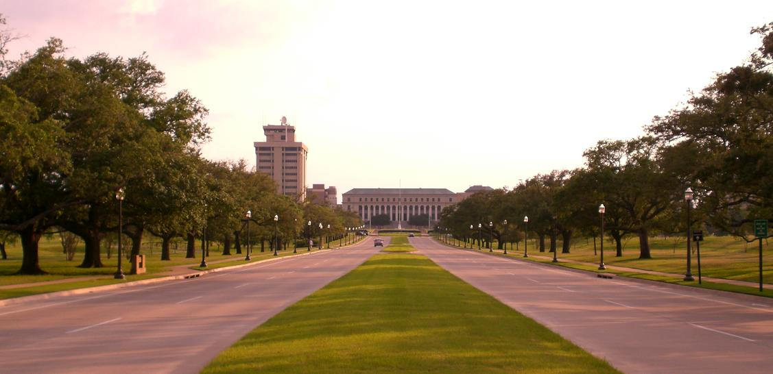 A view of the entrance to campus along New Main Dr. taken in early May of 2007.